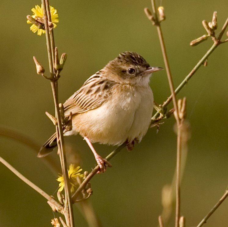 A montage of four photos of Zitting Cisticola or Streaked Fantail Warbler (Cisticola juncidis).